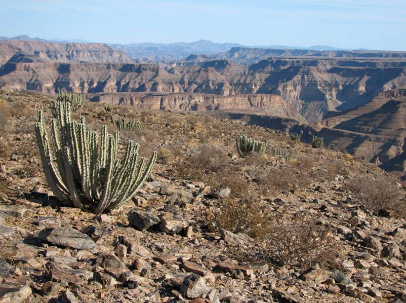 Fish River Canyon, Karas region, southern Namibia. Gifboom euphorbias on the hillside.